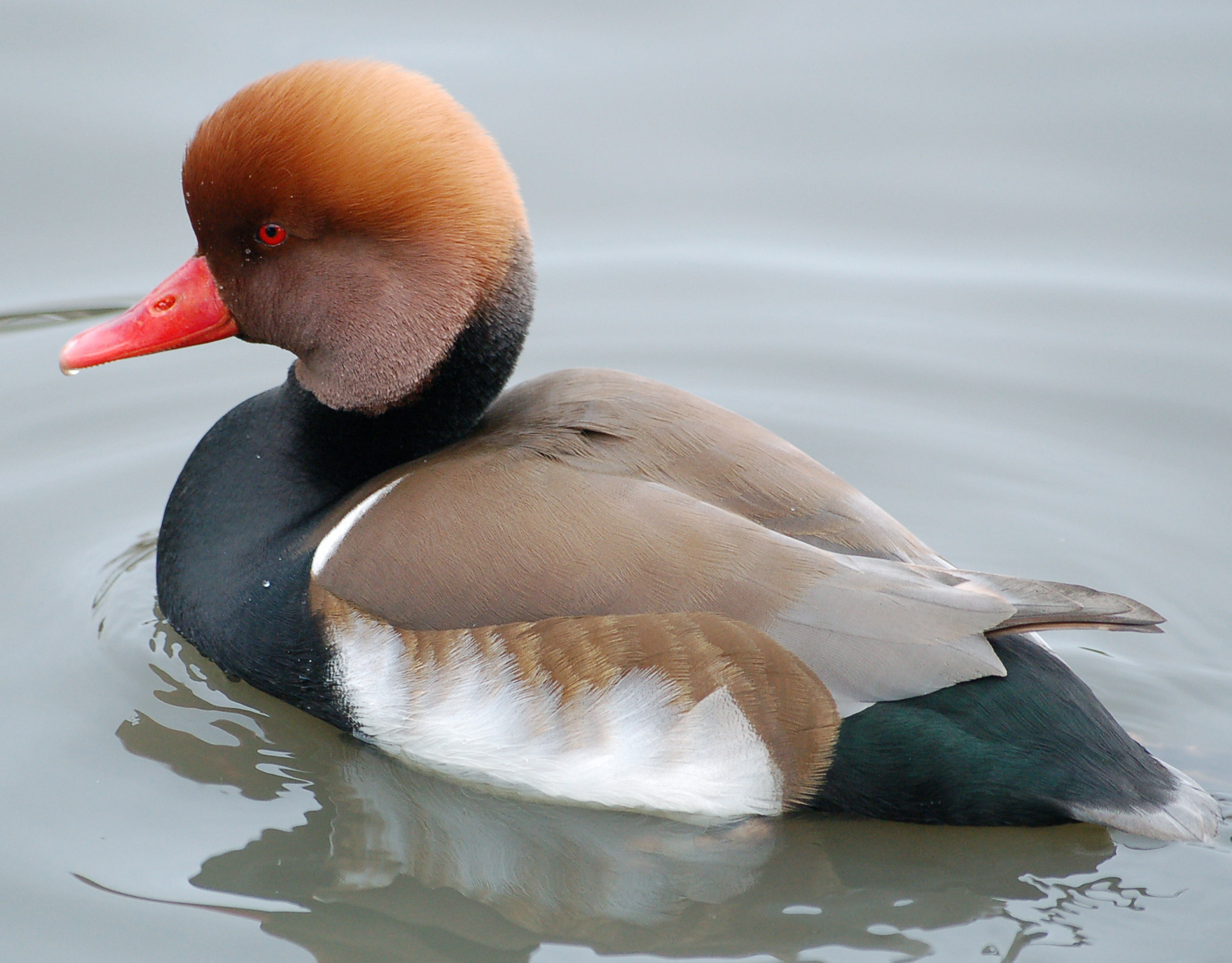 Red-crested Pochard Netta rufina at Slimbridge Wildfowl and Wetlands Centre, Gloucestershire, England. Photographed by Adrian Pingstone in March 2007 and placed in the public domain.